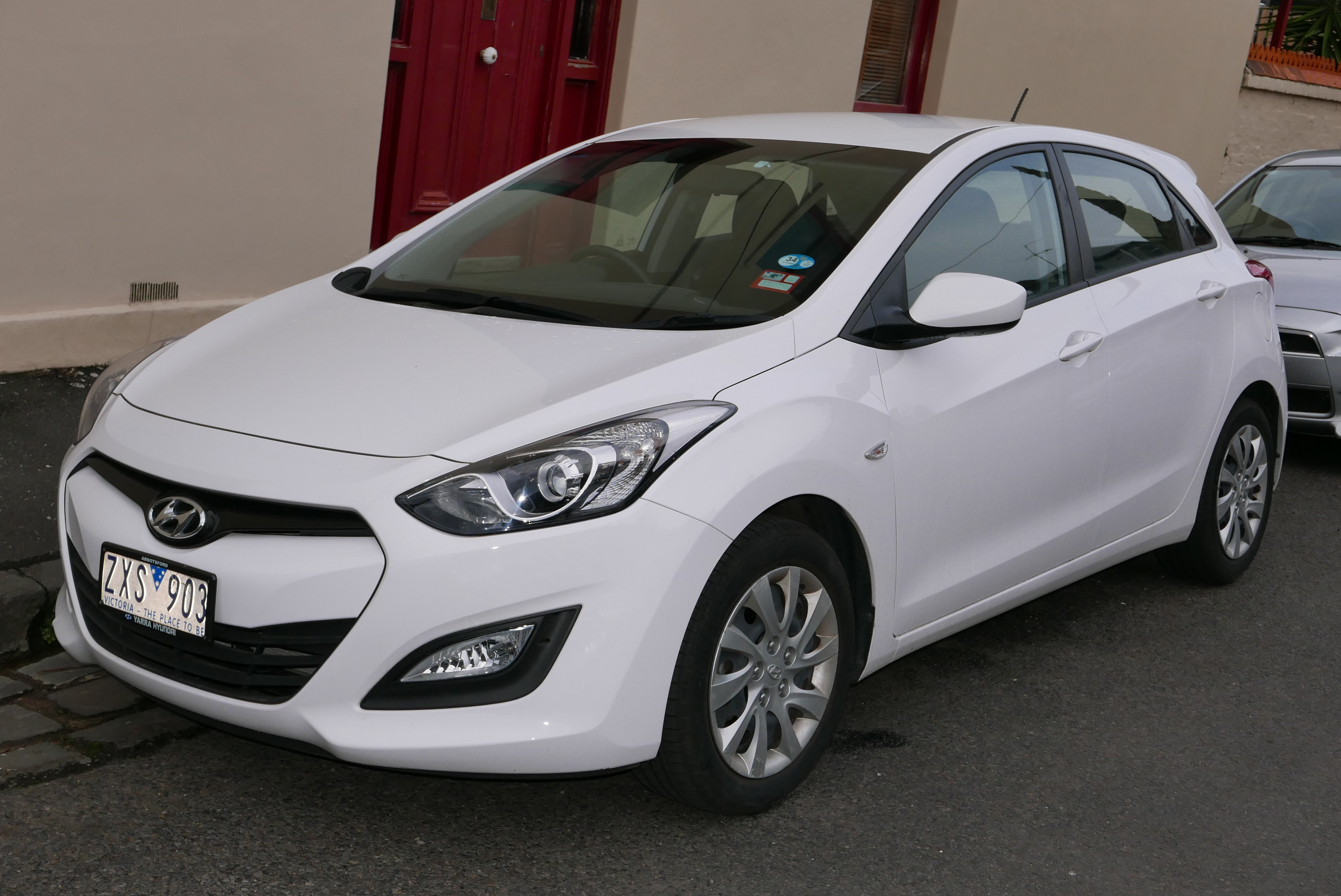 2013 Hyundai i30 (GD MY13) Active 5-door hatchback. Photographed in Fitzroy, Victoria, Australia. Vehicle registration enquiry resultsJurisdictionVictoriaRegistrationZXS903Chassis codeKMHD251EMDU125745Engine codeG4NBDU753415Compliance date2013-07Year of manufacture2013